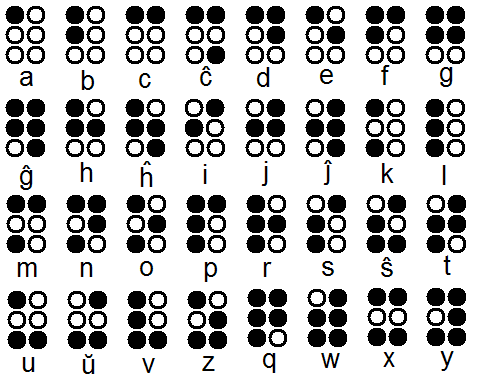 Braille chart for the Esperanto alphabet.